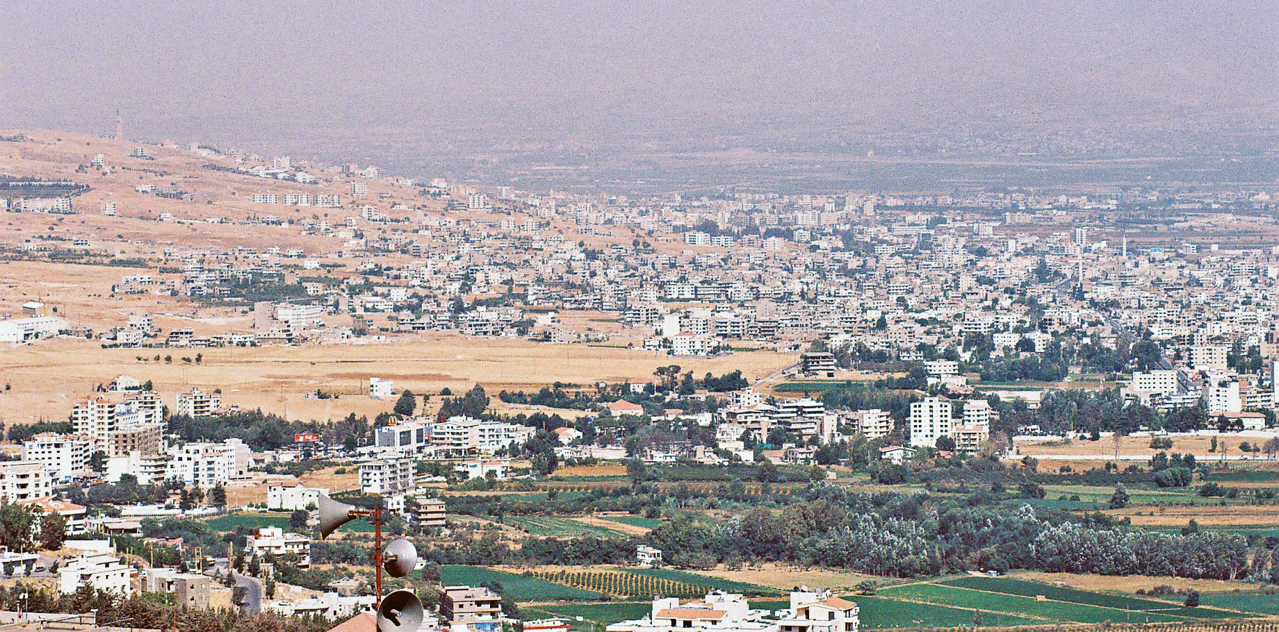 photograph of the town of Zahlé, in the Beqaa Valley, Lebanon.